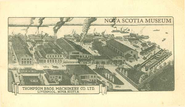 Thompson Bros. Machinery Co. Ltd. in Liverpool Nova Scotia. This is a postcard from January 1st 1930.